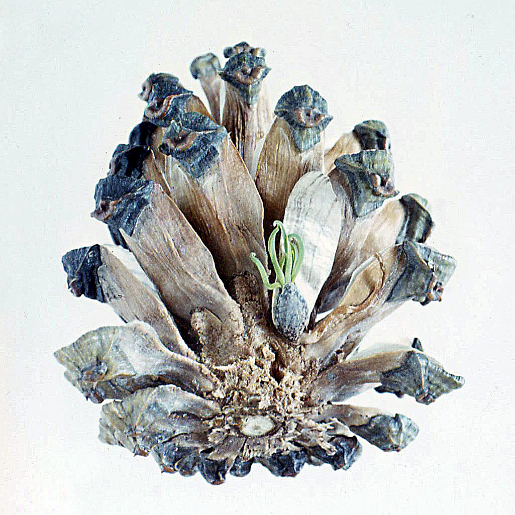 Pinus heldreichii seedling germinating in cone